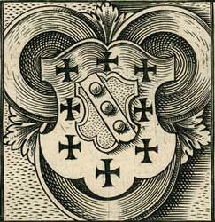 Paracelsus's Coat of Arms